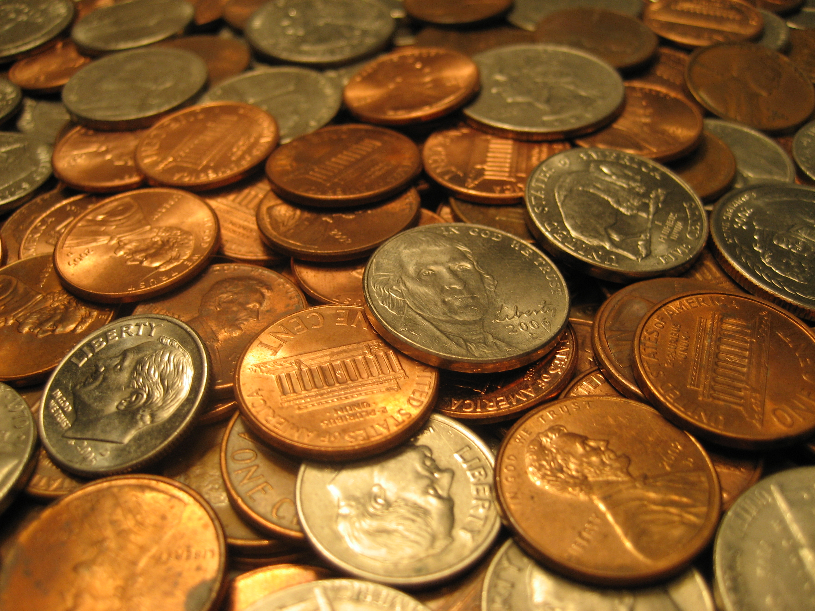 An assortment of United States coins, including quarters, dimes, nickels and pennies.